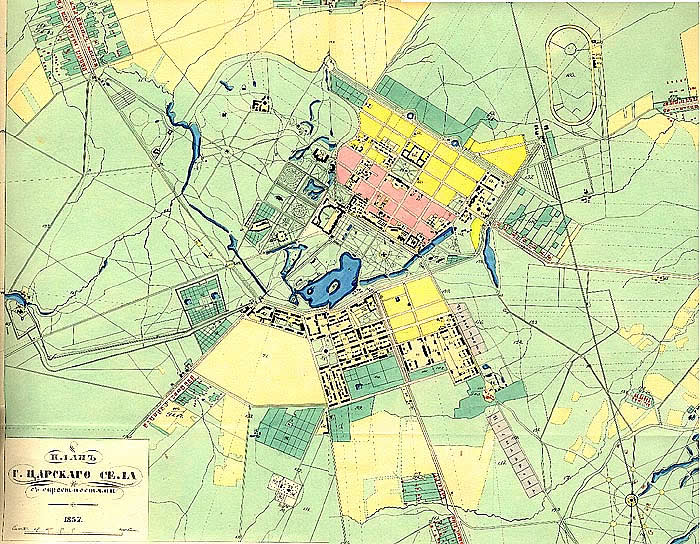 Map of Tsarskoye Selo (Russia)